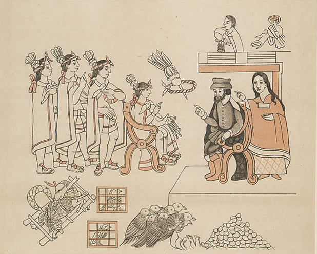 Tenochtitlan, Entrance of Hernan Cortes. Cortez and La Malinche meet Moctezuma II. , November 8, 1519 The imasge is from the "Lienzo de Tlaxcala", created by the Tlaxcalans to remind the Spanish of their loyalty to Castile and the importance of Tlaxcala during the Conquest. The text mixes European and native styles and includes anachronisms, such as the European-style chairs included in this image.